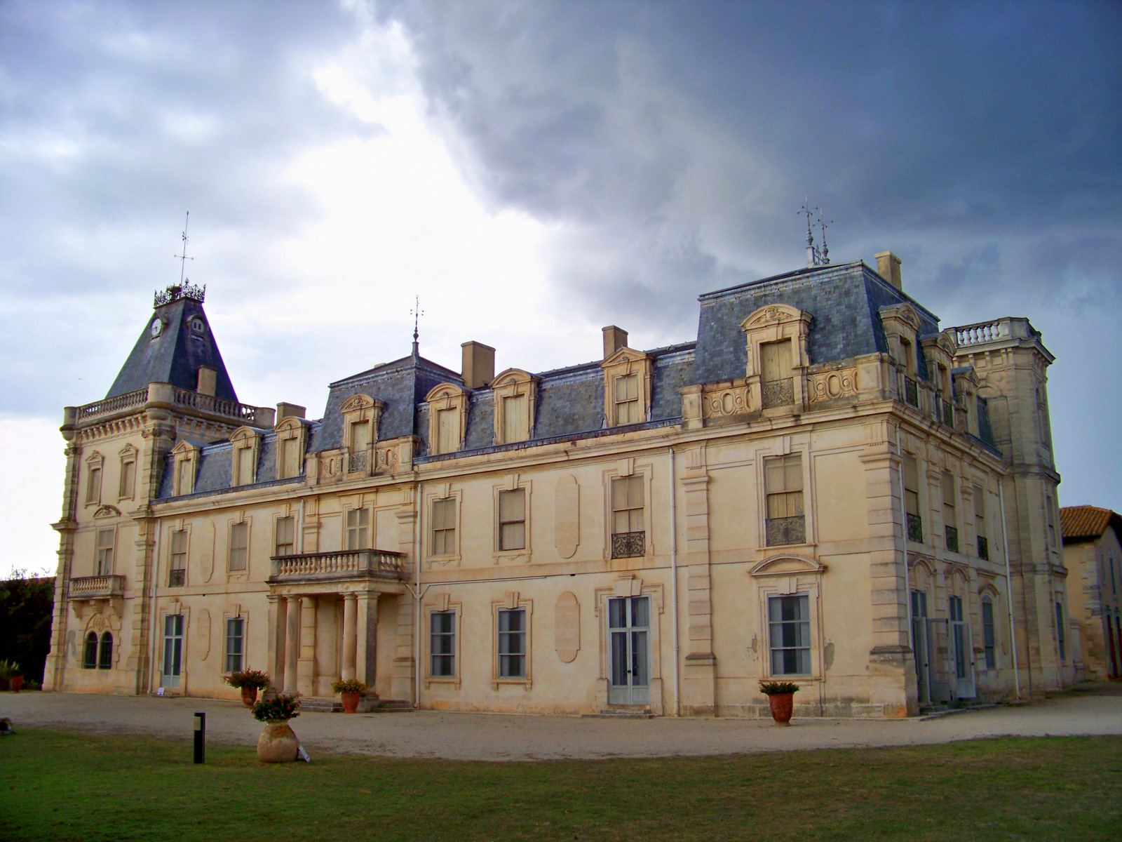 The Castle of Espeyran, Saint-Gilles-du-Gard, France